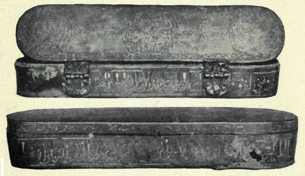 The pen case which belonged to al-Ghazali in the 11th century, as preserved in the Cairo museum